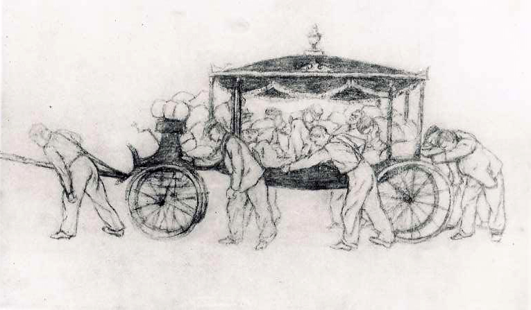 Artwork from the Theresienstadt ghetto